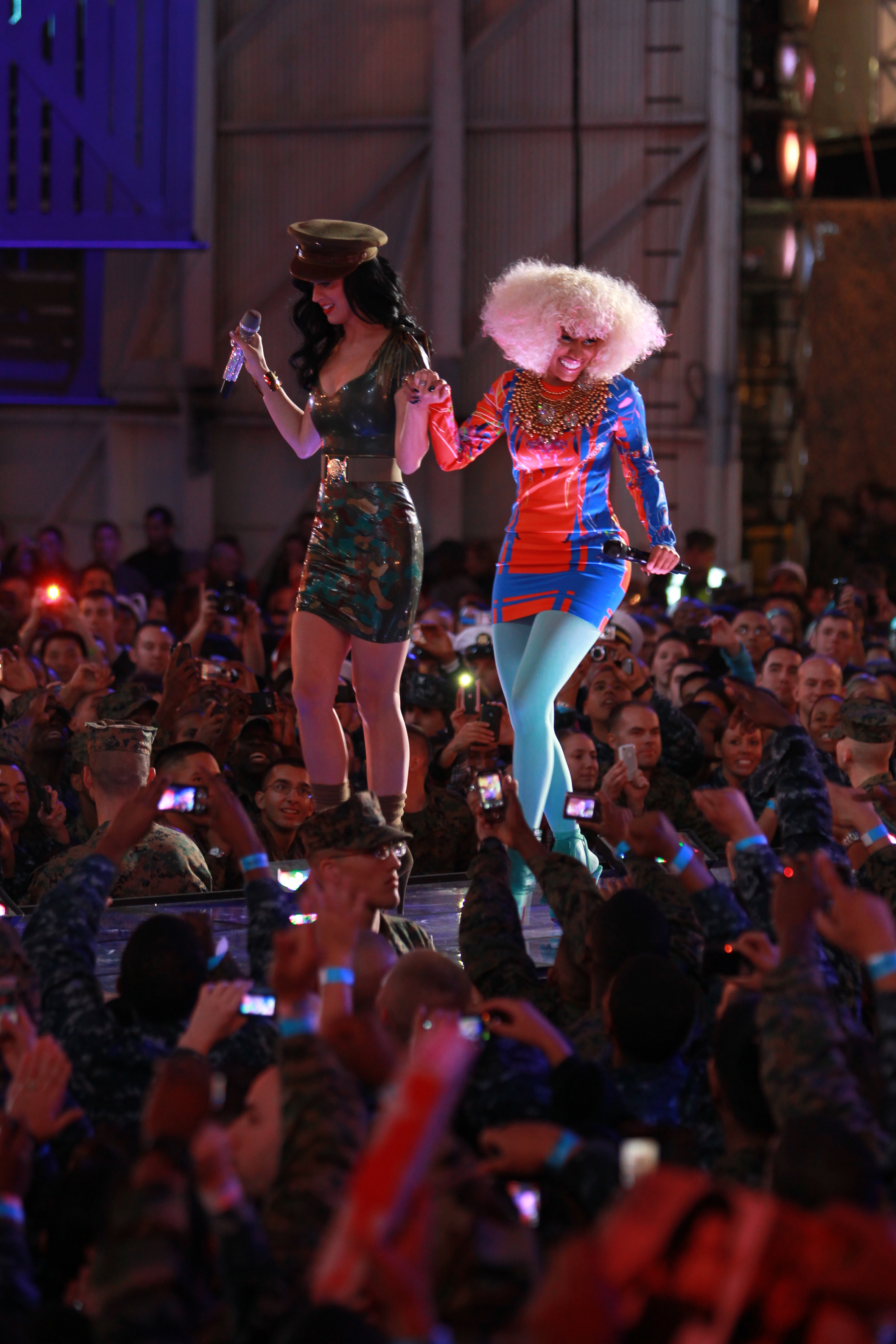 Katy Perry (left) and Nicki Minaj performs for service members during the 2010 VH1 Divas Salute the Troops concert at Marine Corps Air Station Miramar, Dec. 3. Other performances included Heart, Keri Hilson, Sugarland, Grace Potter and the Nocturals, and Kathy Griffin.